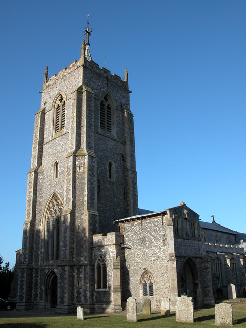 Aylsham church, near to Aylsham, Norfolk, Great Britain. Aylsham church is dedicated to St Michael.